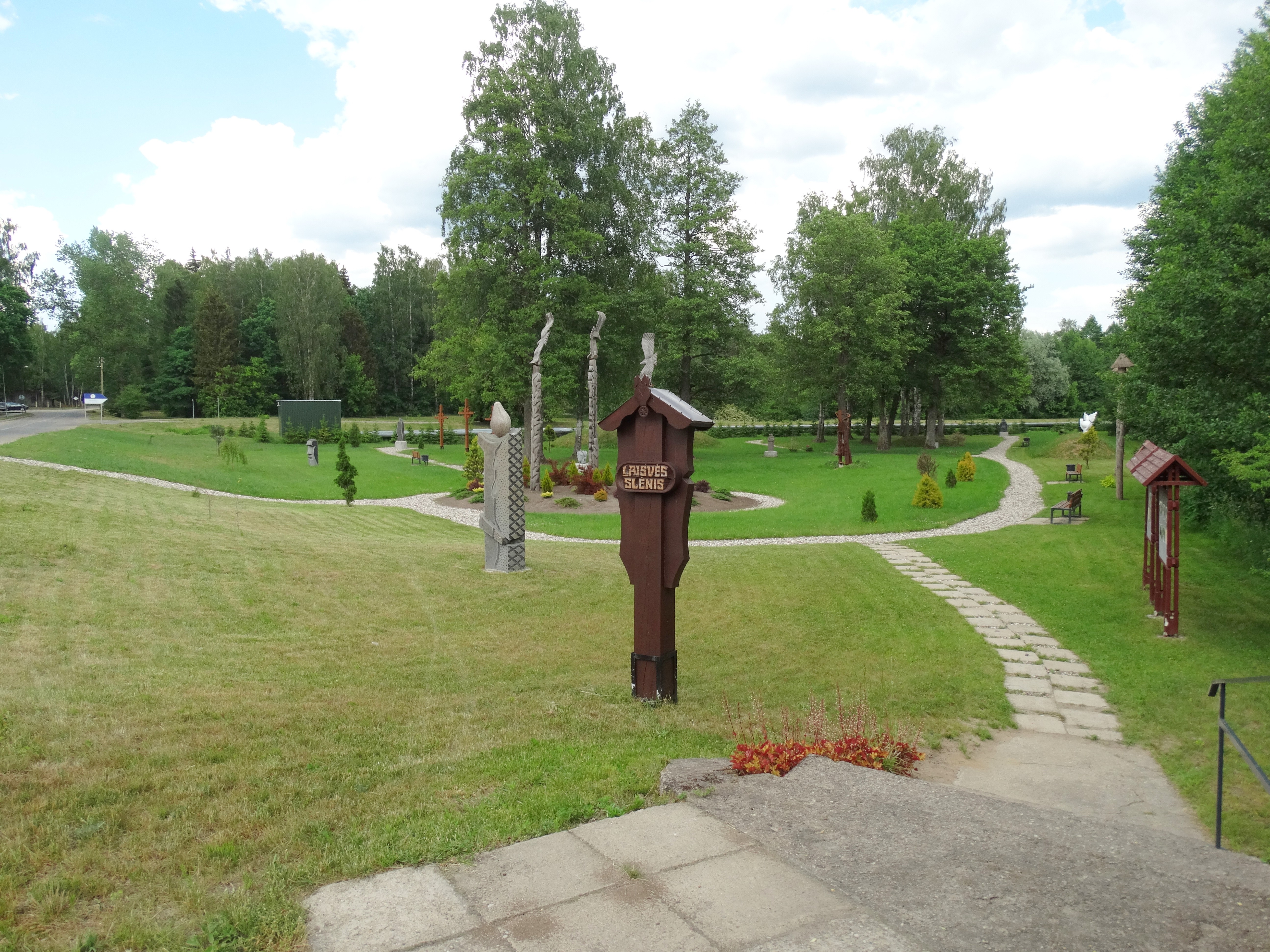 Pravieniškės, Kaišiadorys District, Lithuania